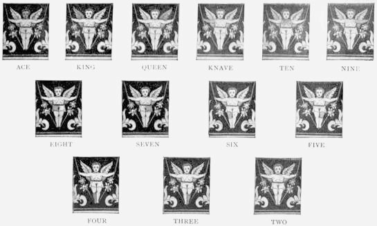 A method of tinting "angel back" playing cards, as illustrated in John Nevil Maskelyne's "Sharps and Flats".